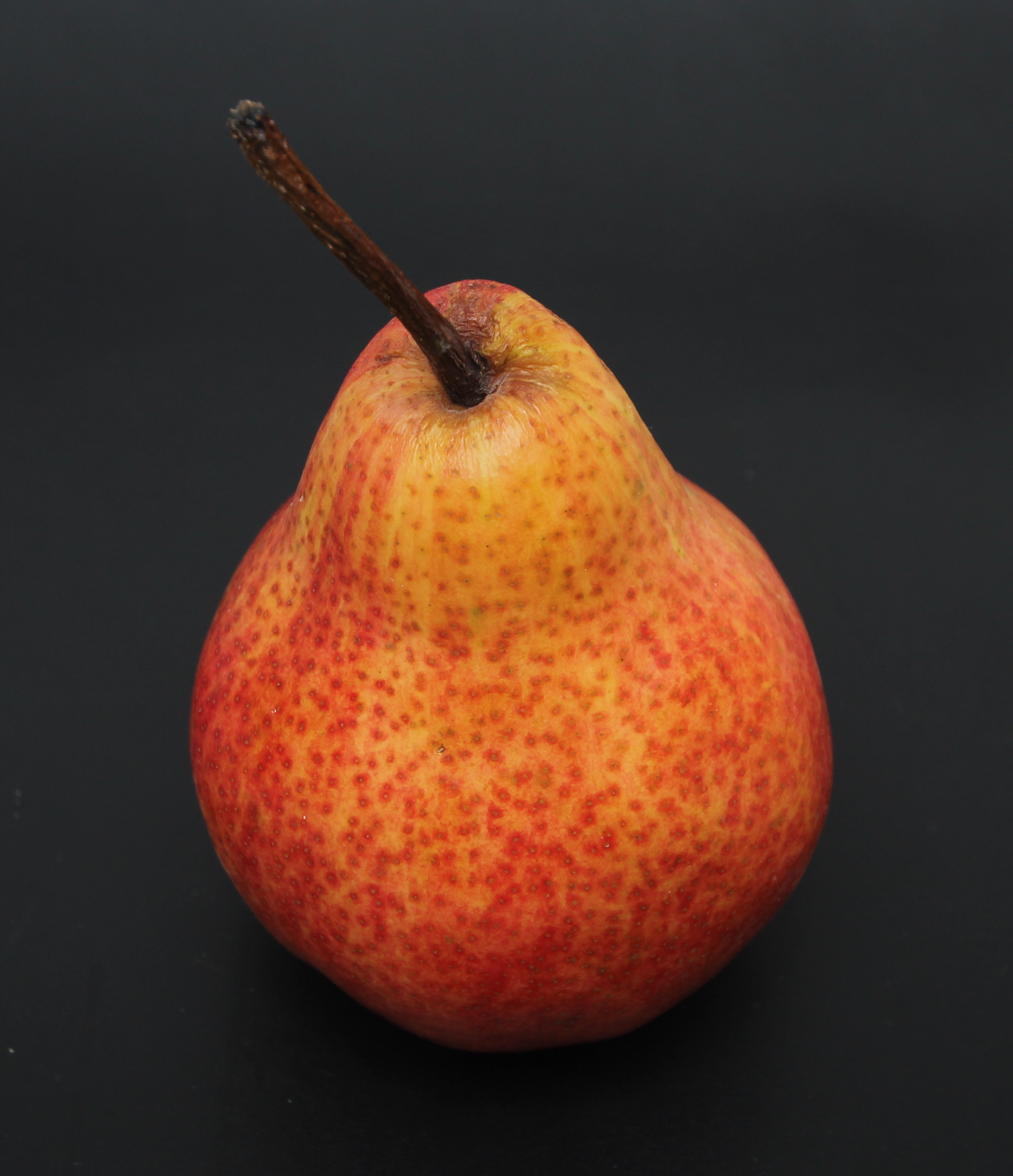 Poire Red Bartlett.